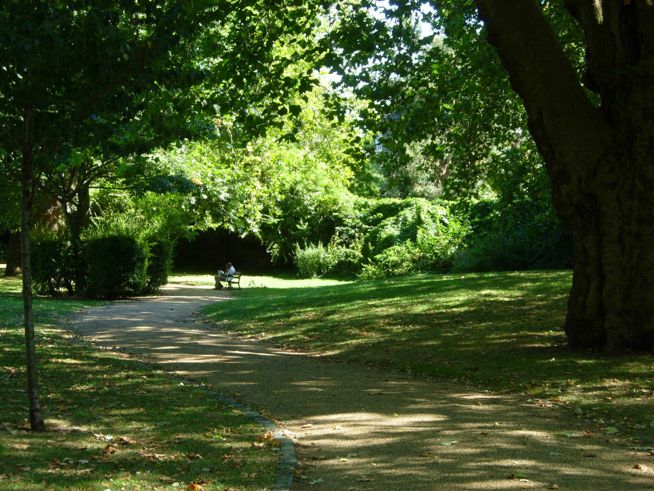 When a chapel of ease was established here on Holloway Road in 1814 a burial ground was established around it. it was used as such until 1856 after which the grounds were reordered and re-opened to the public in the 1890s. It is now a pleasant shady refuge on a warm day in the city.